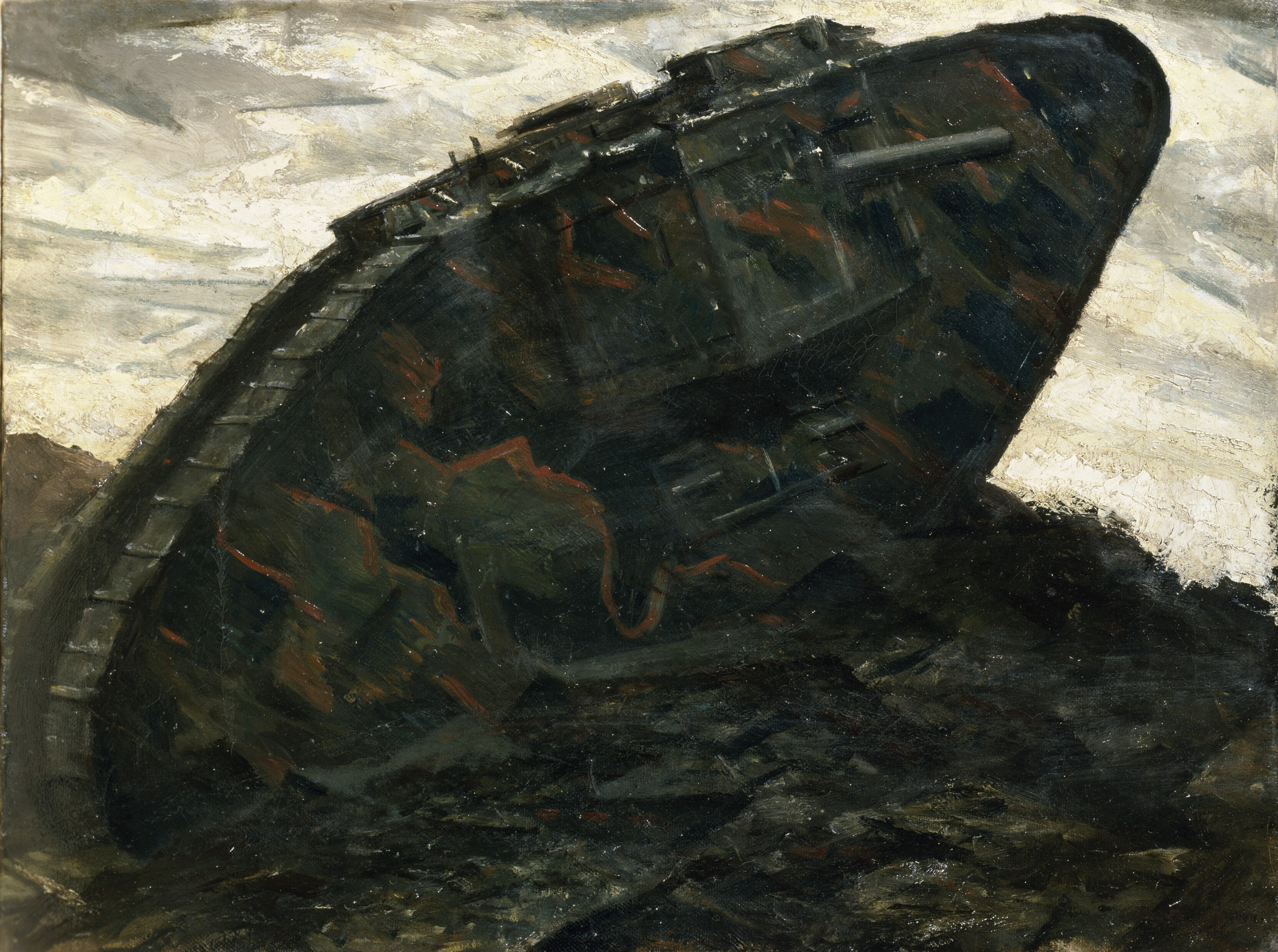 The painting replaced 'Paths of Glory' which was removed from display at the Leicester Galleries exhibition in 1918. image: A side view of a camouflaged tank crossing muddy terrain. The tank fills the composition.